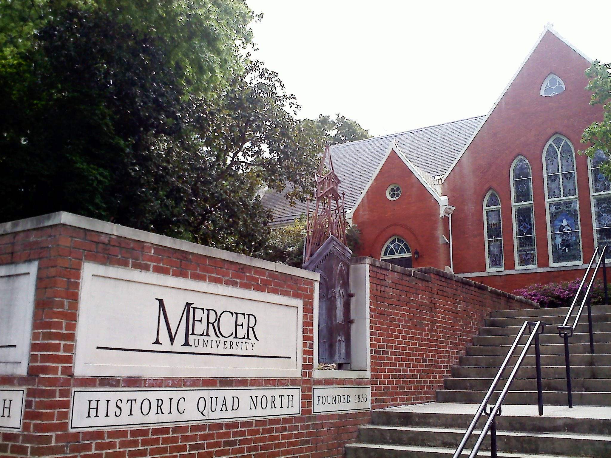 Mercer University, Historic Quad North in Macon, Georgia, United States.